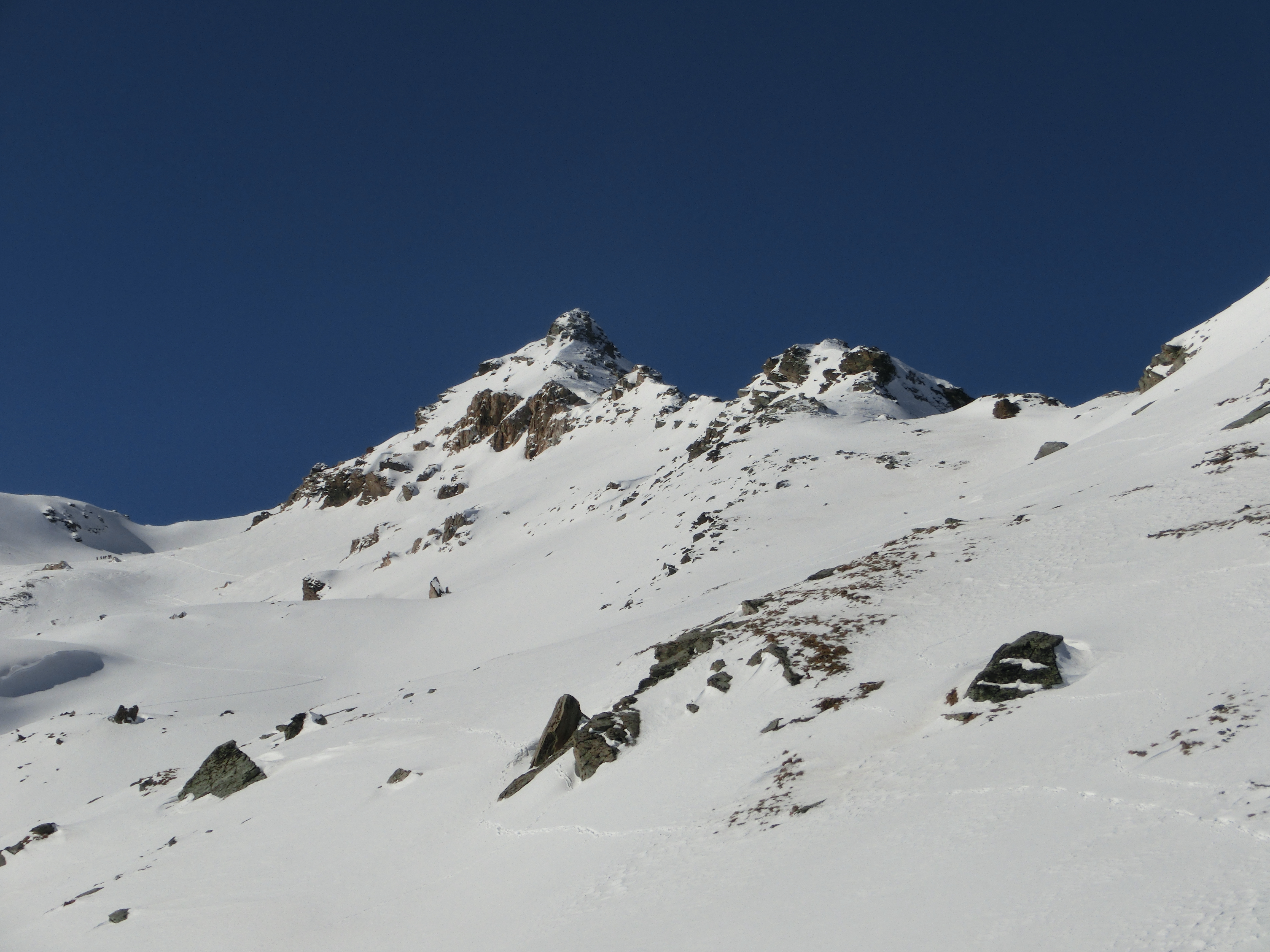 Piz Surparé as seen from east-south-east (near P.2596), Mulegns, Bivio, Grison, SwitzerlandRumantsch: Piz Surparé, piglia se d'ost-sid-ost (manevel agl P.2596), Mulegns, Beiva, Grischun, Svizra